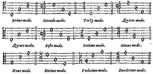 Mode scales of Gioseffo Zarlino (scheme)